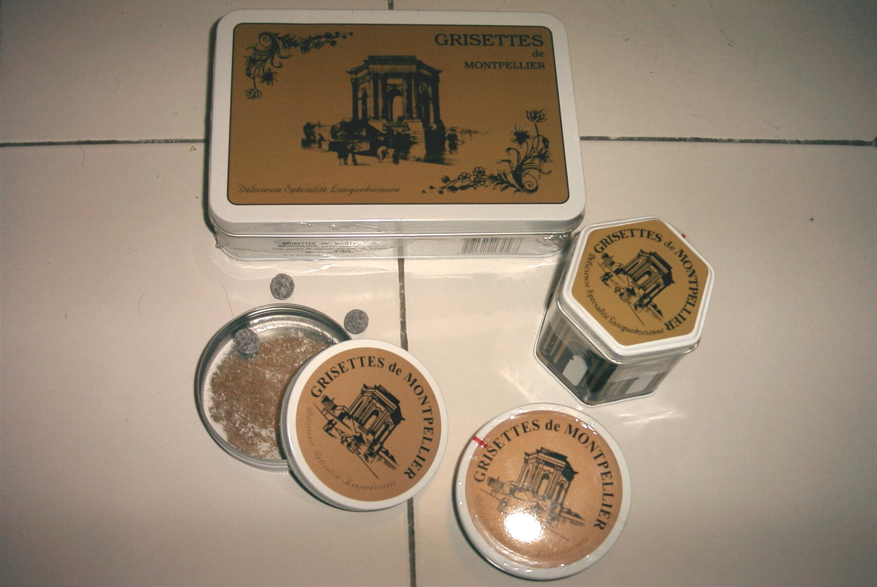 Grisettes (confectionery) from Montpeller, France.